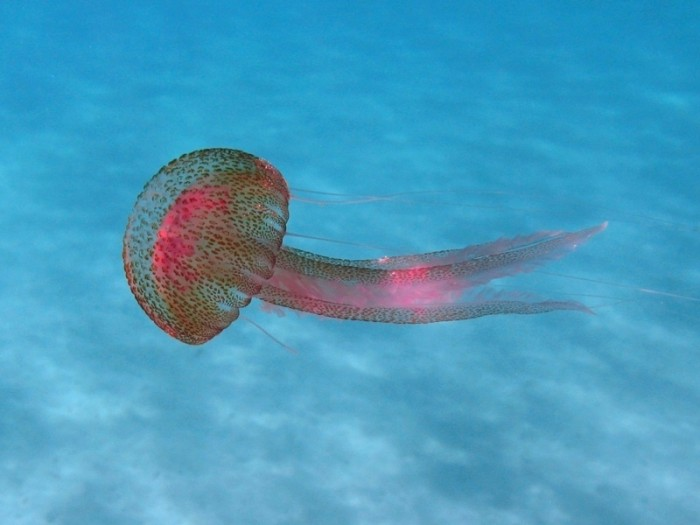 Pelagia noctiluca (Forsskål, 1775) — Corsica